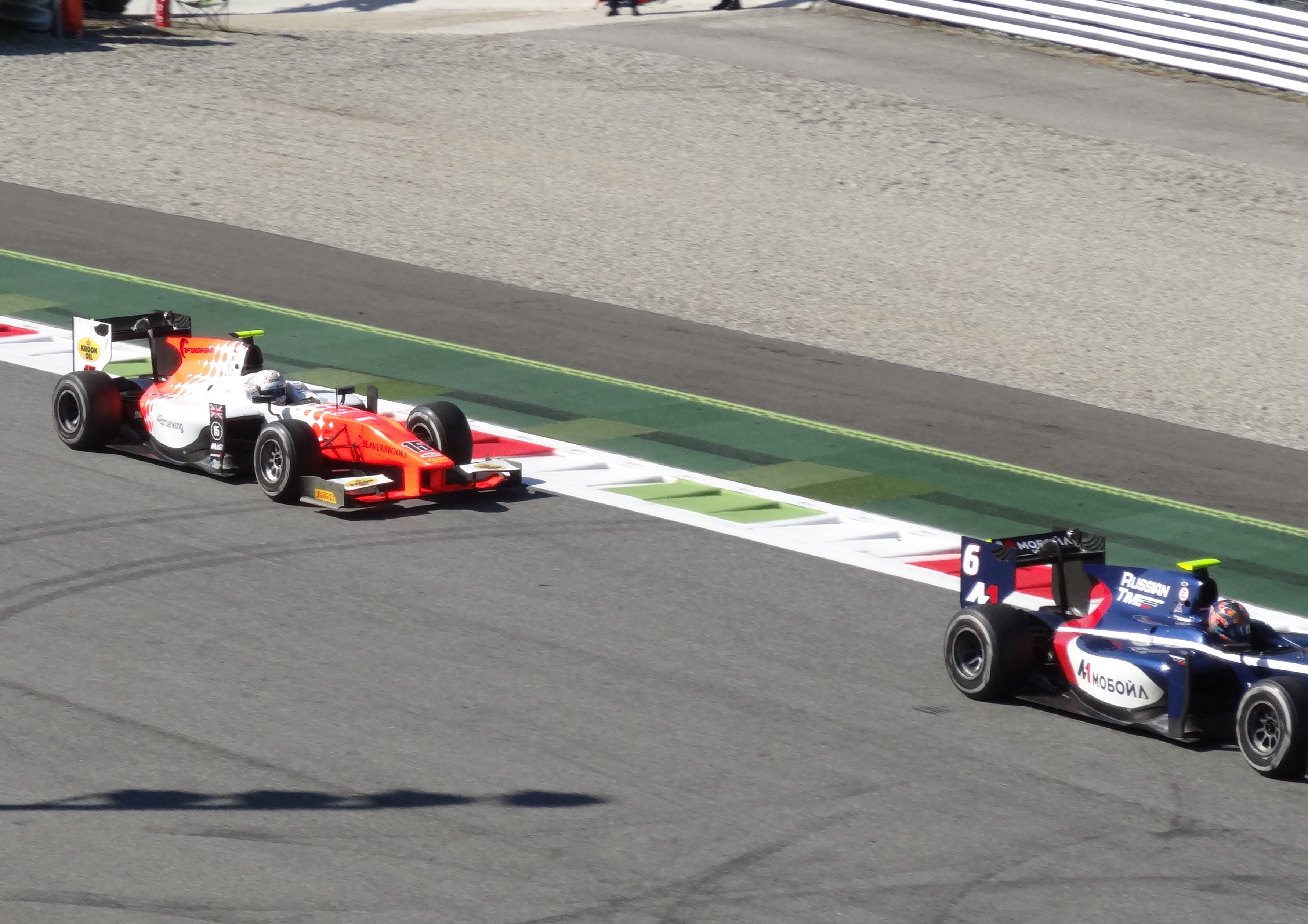 Artem Markelov & Jordan King Monza F2 2017